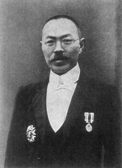 Kurakichi Shiratori, acting chancellor of Gakushuin.